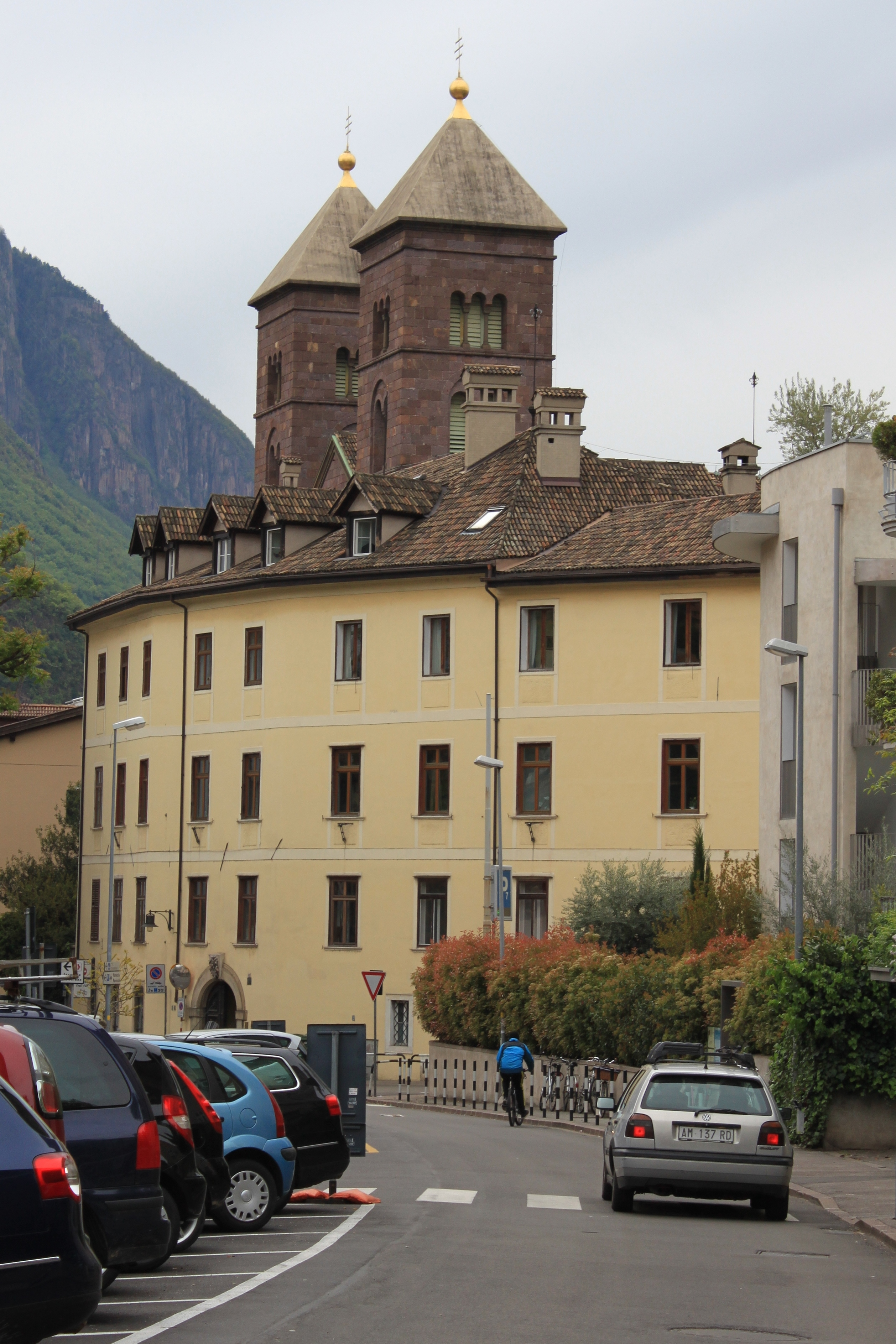 Stillendorf in Bozen Bolzano South Tyrol (behind it the towers of the Herz Jesu church